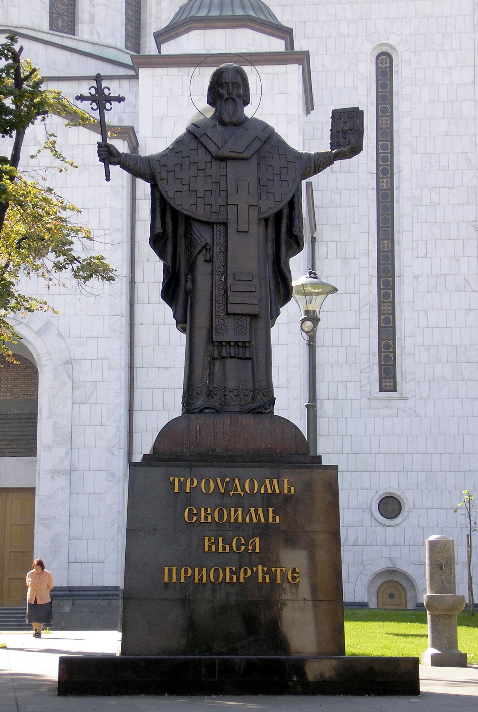 Monument of the Saint Sava in the Temple garden. The text on the pedestal reads: "ТРОѴДОМЬ СВОИМЬ ВЬСА ПРИОБРѢТЕ" (You can get over anything by your work).